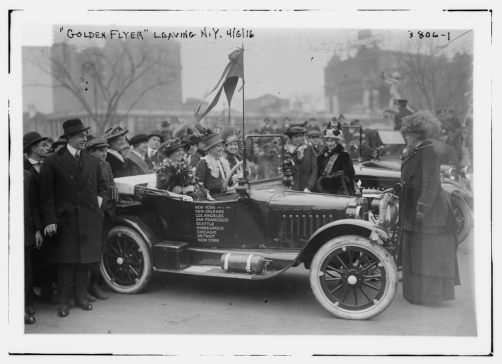 Carrie Chapman Catt on April 6, 1916 christening the Golden Flyer. Alice Burke and Nell Richardson are in the car about to began a journey across the United States to promote women’s right to vote.